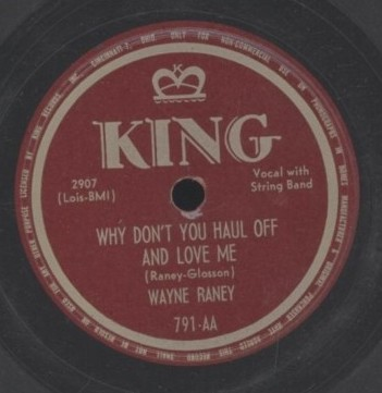 Why Don't You Haul Off and Love Me by Wayne Raney, King 1949.